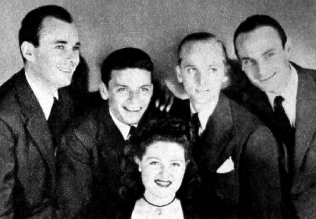 Photo of Frank Sinatra with the vocal group, The Pied Pipers taken in 1939. Sinatra and the Pied Pipers were both part of Tommy Dorsey's orchestra at the time. The Pied Pipers originally had 8 members; Jo Stafford, their only female member, is seen at center. Since many of the group's photos don't identify all members, basing this on a comparison to this photo with identification of all pictured, those shown here seem to be--from left to right--John Huddleston, Frank Sinatra, Jo Stafford, Chuck Lowry and Clark Yocum.